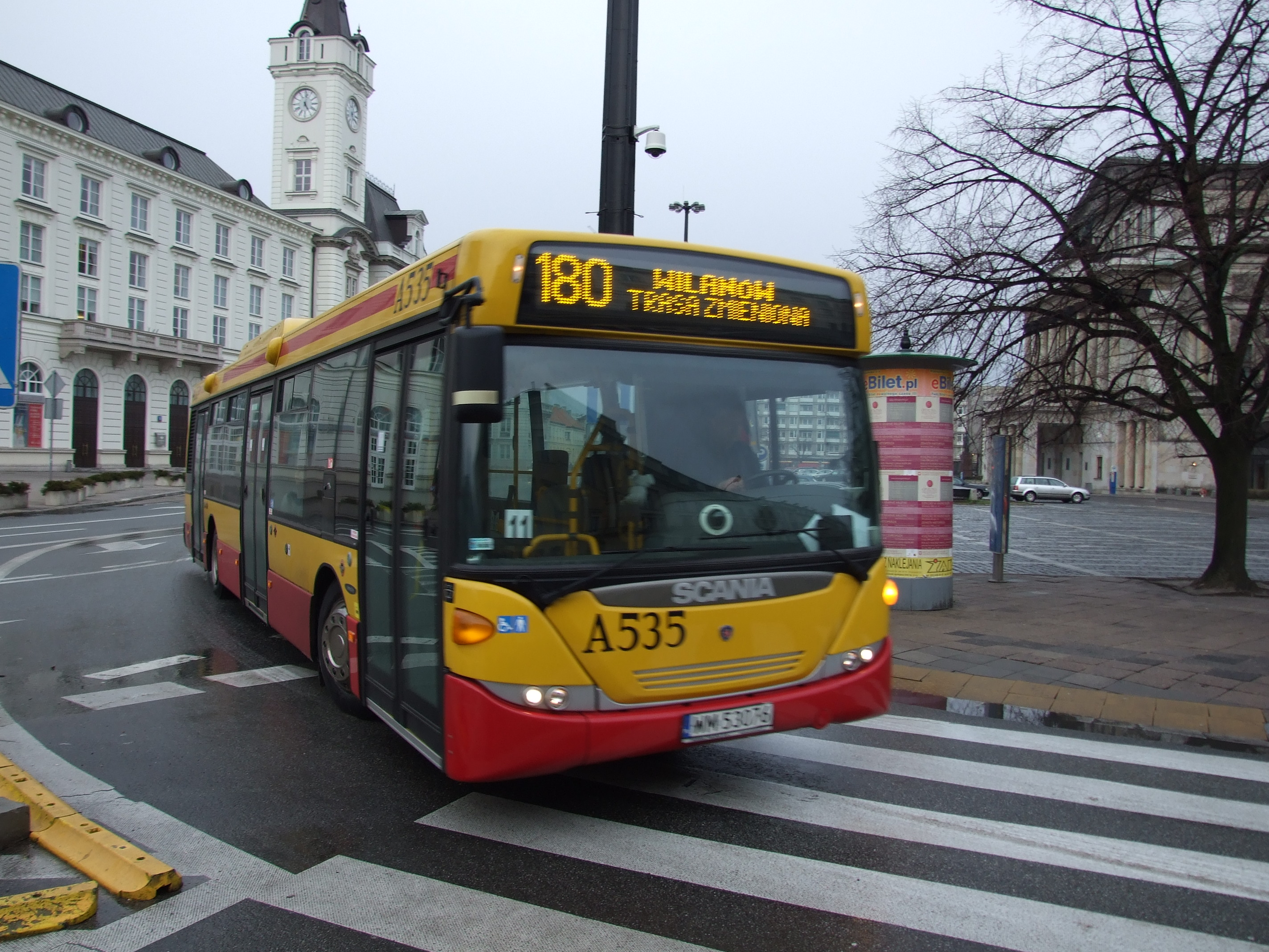 Warsaw public transport bus. Scania CN270UB 4x2 EB OmniCity (#A535), built 2007, PKS Grodzisk Mazowiecki operator.